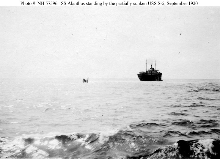 Steamship Alanthus standing by the submarine S-5 stern on 2 September 1920, the day after she accidentally sank off Delaware Bay. Photographed from USS McDougal (DD-54).